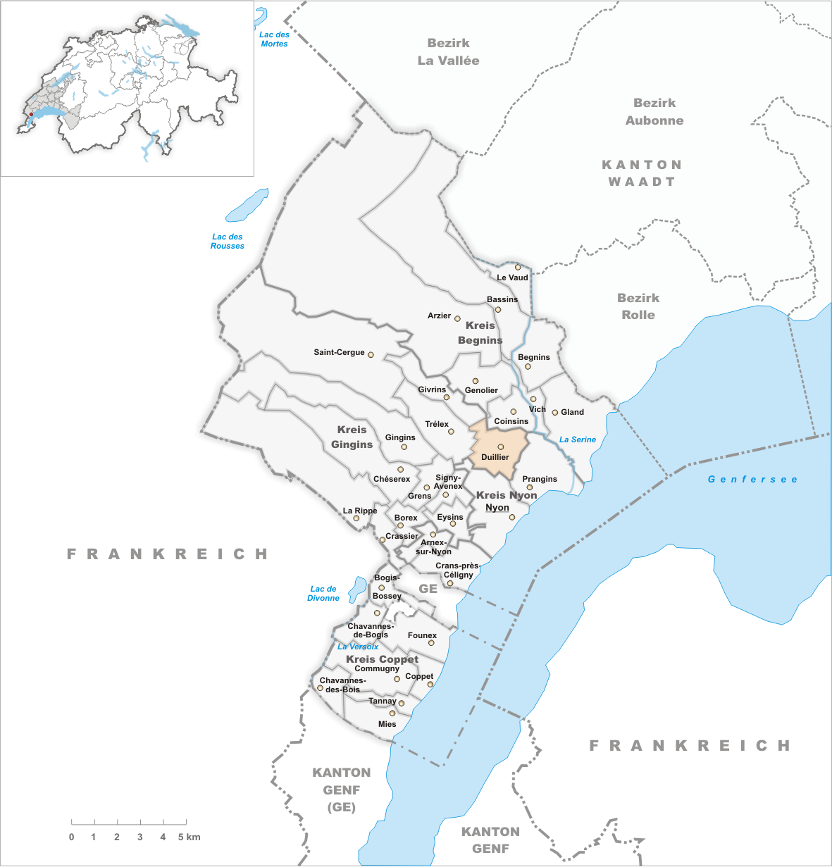 Municipality Duillier